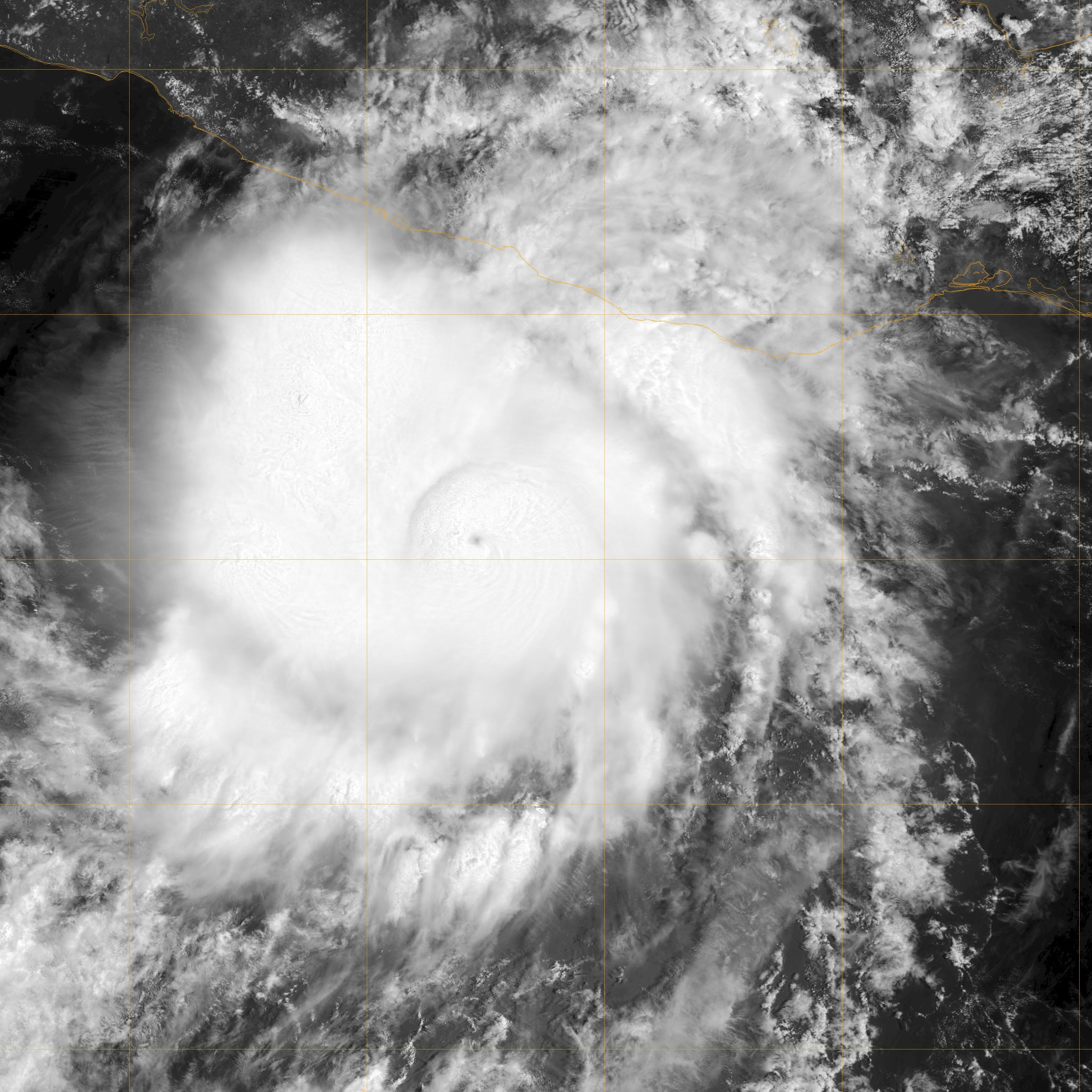 This image of Hurricane John was captured at 1718 UTC when it was located off the southern coast of Mexico. At the time, maximum sustained winds were 80 mph and the pressure was 983 mb.